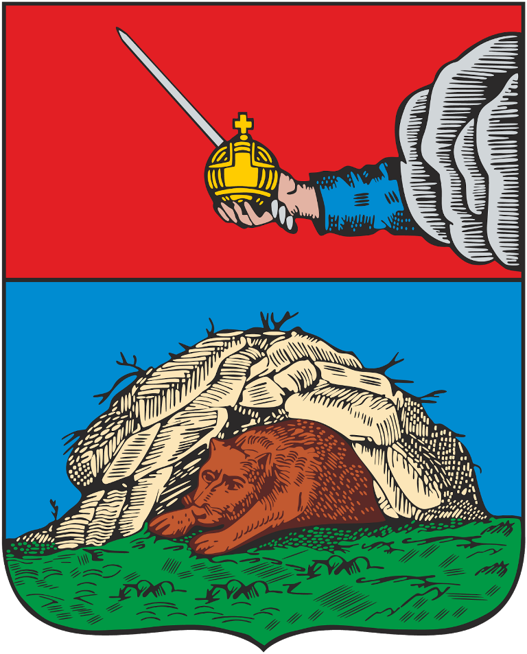 Syktyvkar (Ust-Sysolsk, Komi), coat of arms (1780)